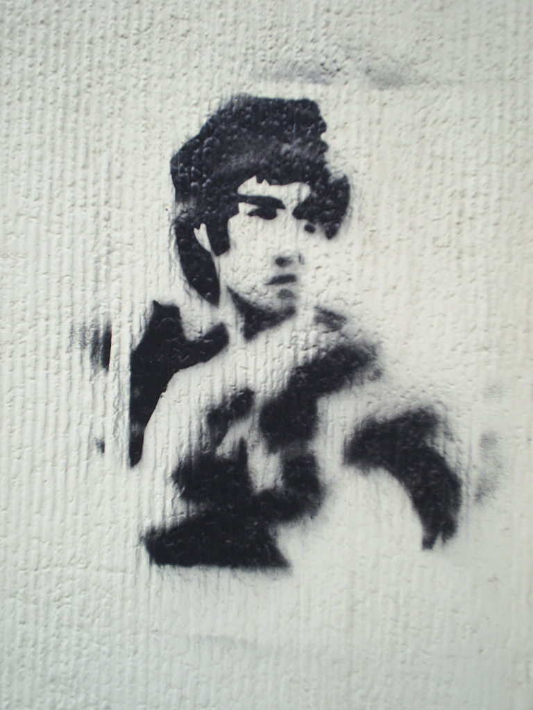 The image of Bruce Lee on the wall